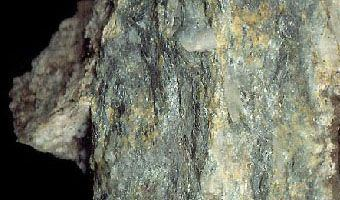 Amfibolite from Žiarska valley, Western Tatras, Slovakia